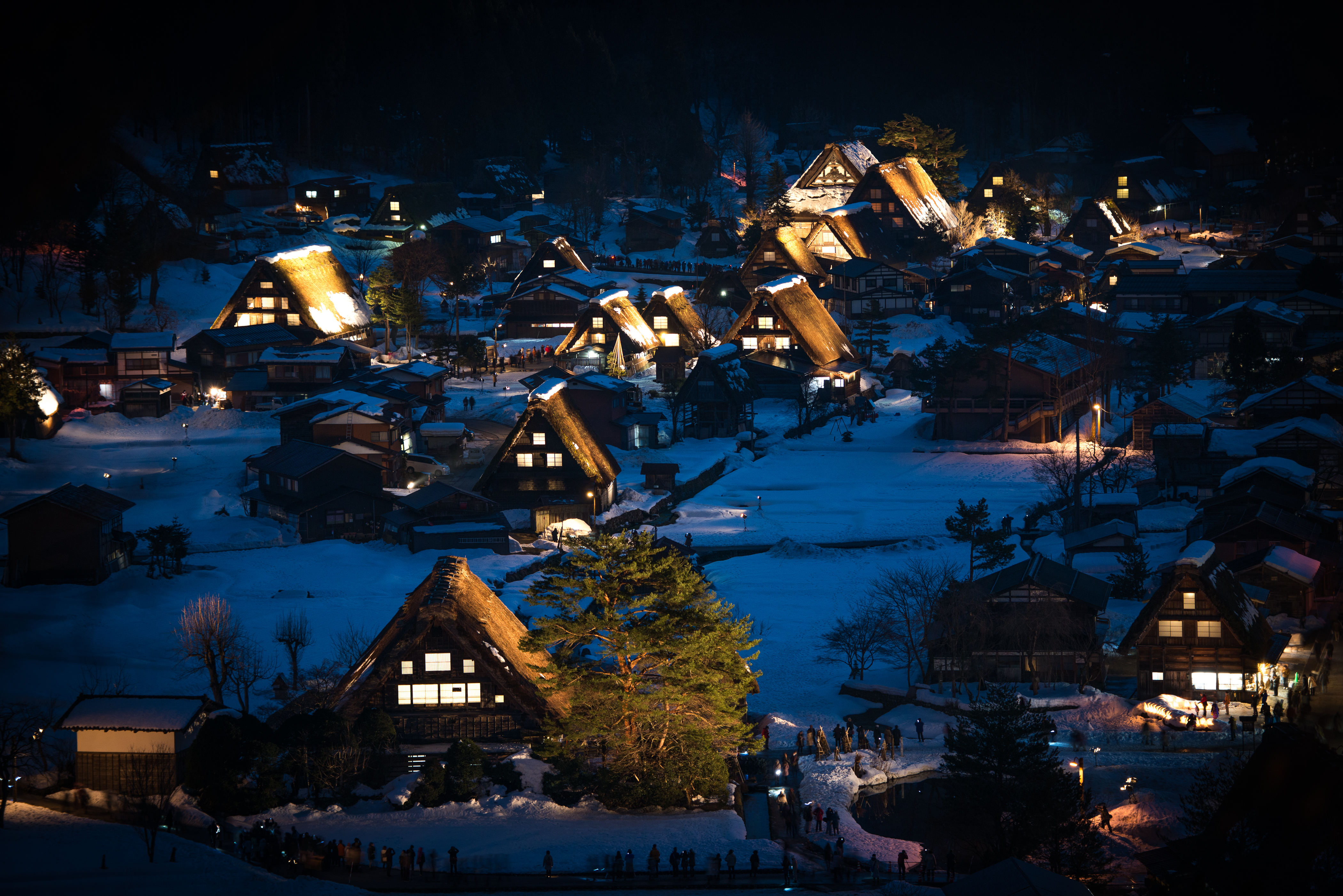 Night view of Shirakawa-go, a traditional Japanese village showcasing a building style known as gasshō-zukuri.